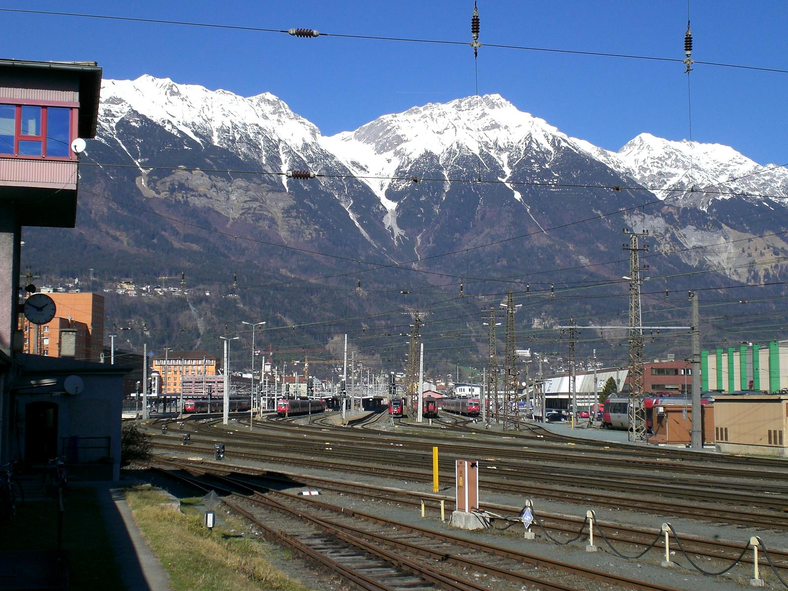 Trackage of Innsbruck Hbf (main station), Austria, west side